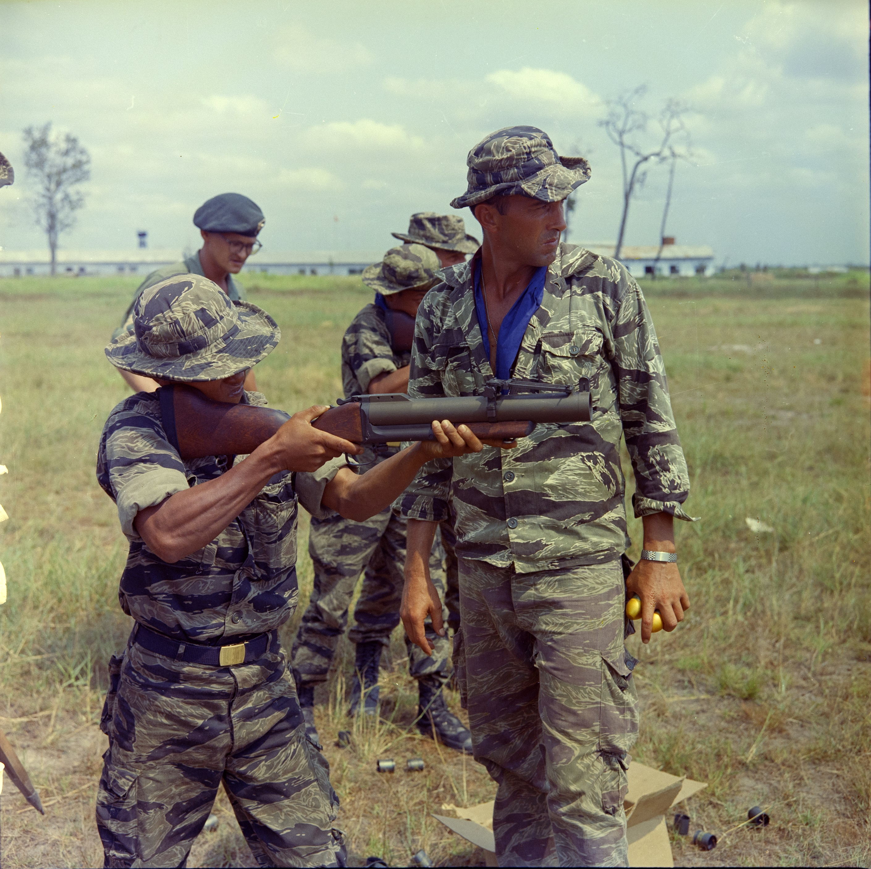 SSG Alvin J. Rouly taught a Vietnamese Civilian Irregular Defense Group (CIDG) trainee how to use a M79 grenade launcher. Camp Trai Trung Sup, Republic of Vietnam, was the 3rd Corps’ Basic Training Center for CIDGs . The camp was commanded by the Vietnamese Special Forces (LLDB) and advised by Detachment A, 5th US Special Forces Group.